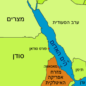 Red sea map